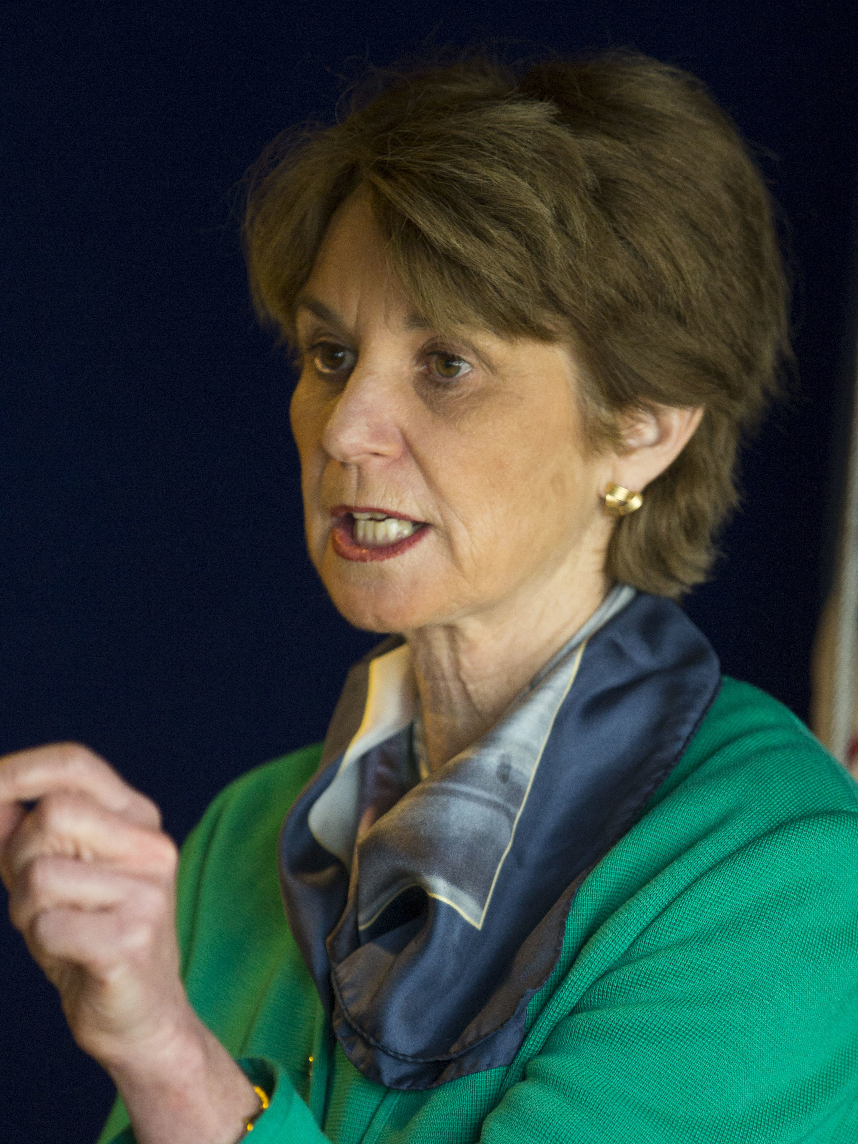 Kathleen Kennedy Townsend, daughter of Robert Kennedy speaks at Customs and Border Protection concerning women's issues as well as Irish Heritage Month. photo by James Tourtellotte